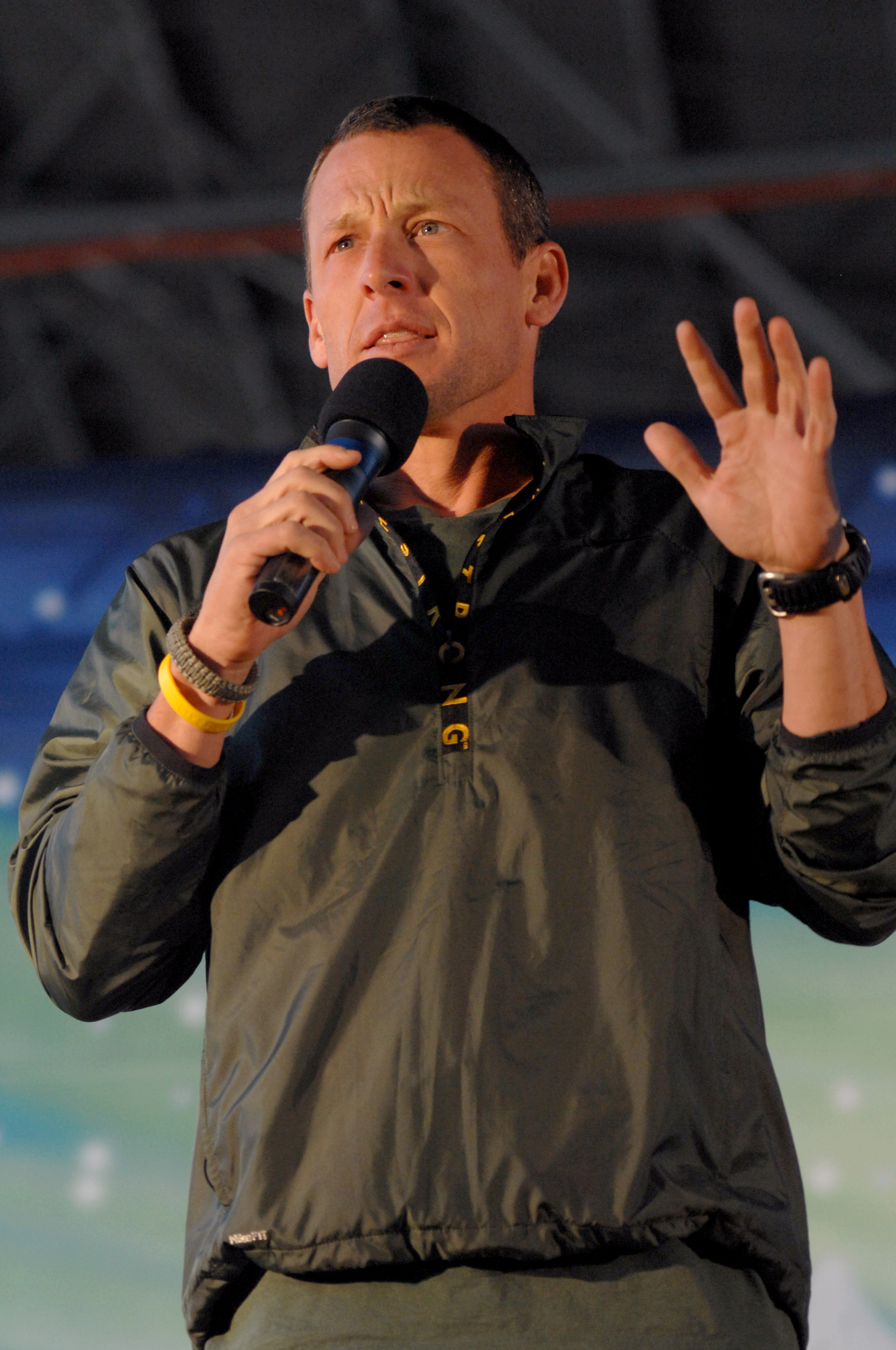 AVIANO AIR BASE, Italy-- Lance Armstrong speaks to the Aviano community duing the USO Tour 2007, on Dec. 22, 2007. Navy Adm. Michael G. Mullen, chairman of the Joint Chiefs of Staff, arrived in Aviano early Saturday afternoon from down range, bringing entertainers and celebrities Robin Williams, Lewis Black, Kid Rock, Lance Armstrong, Rachel Smith, the reigning Miss USA, and Ronan Tynan an Irish Tennor on the Chairman's United Service Organizations Holiday tour.